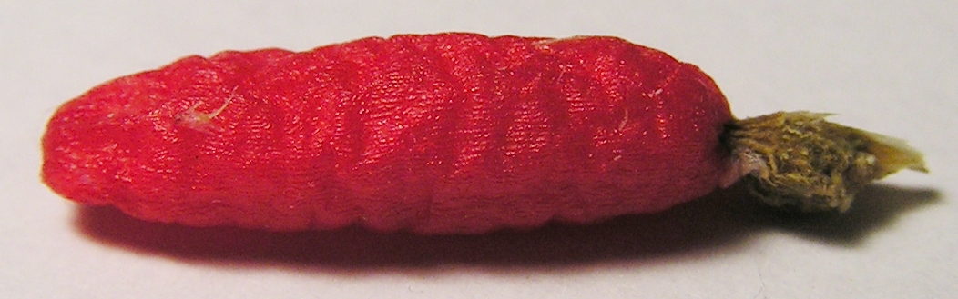 The fruit of Mammillaria prolifera (enlarged).